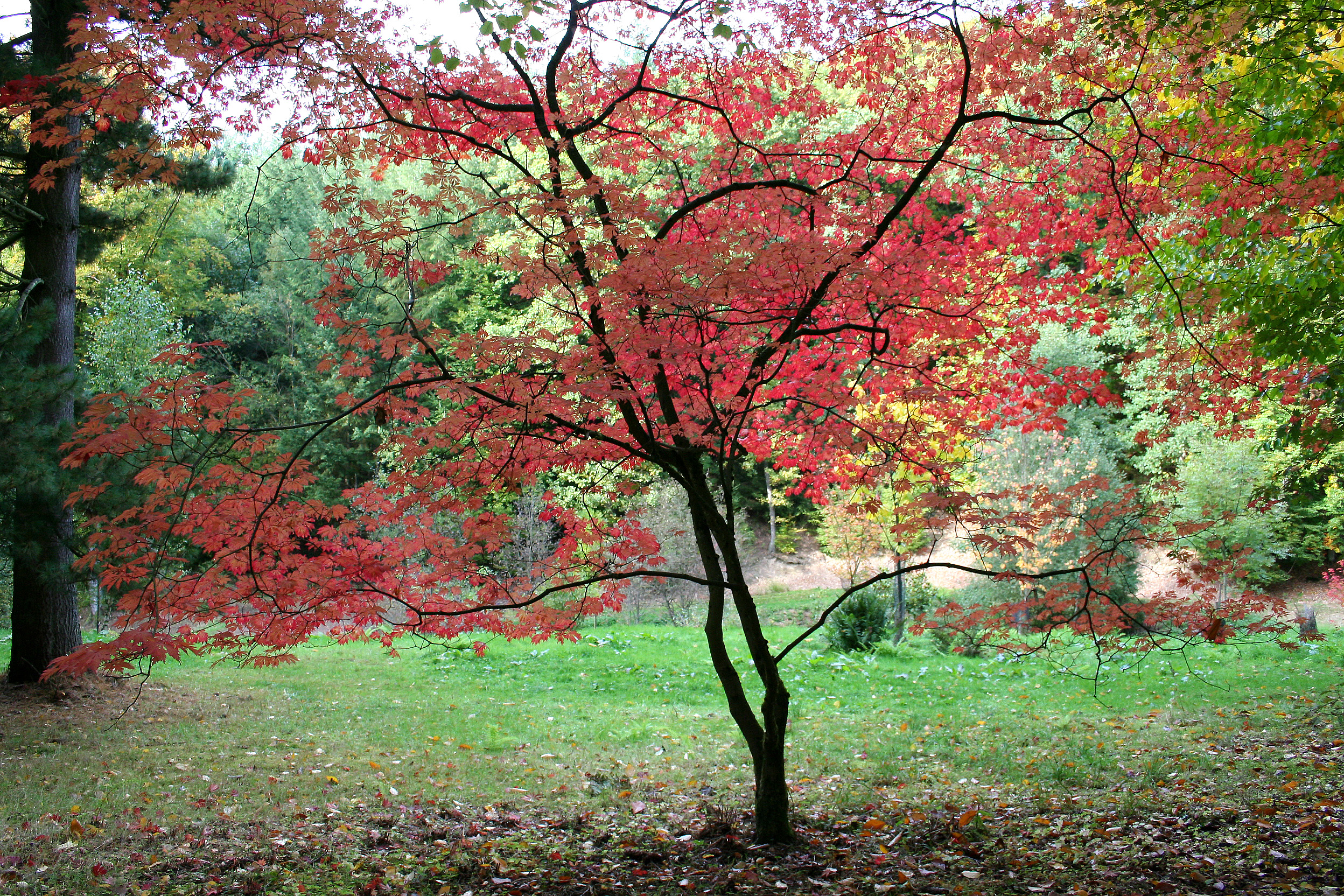 Acer japonicum , Downy Japanese Maple or Fullmoon Maple sub. ‘Aconitifolium’ Planting date : 1963 Precise location : (S37 – 900) Arboretum Robert Lenoir - Rendeux (Belgium). Walon: Plane japonaise var. fouye d’aconit - (Acer japonicum) var. Aconitifolium Annéye do plantis' : 1963 Place rècta : (S37 – 900) Arboretum Robert Lenoir – Rindeu (Bèljike).